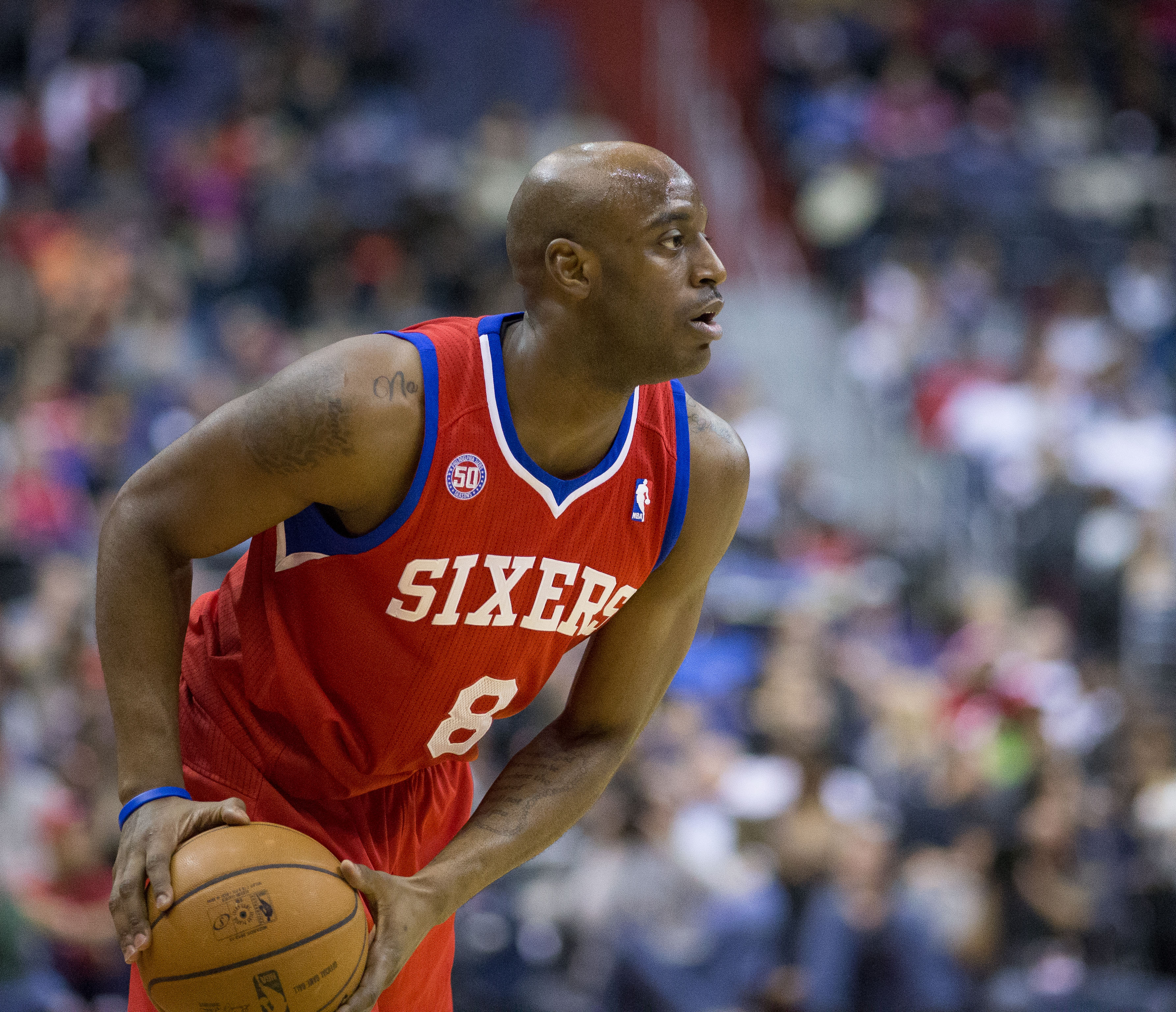 Philadelphia 76ers at Washington Wizards March 3, 2013